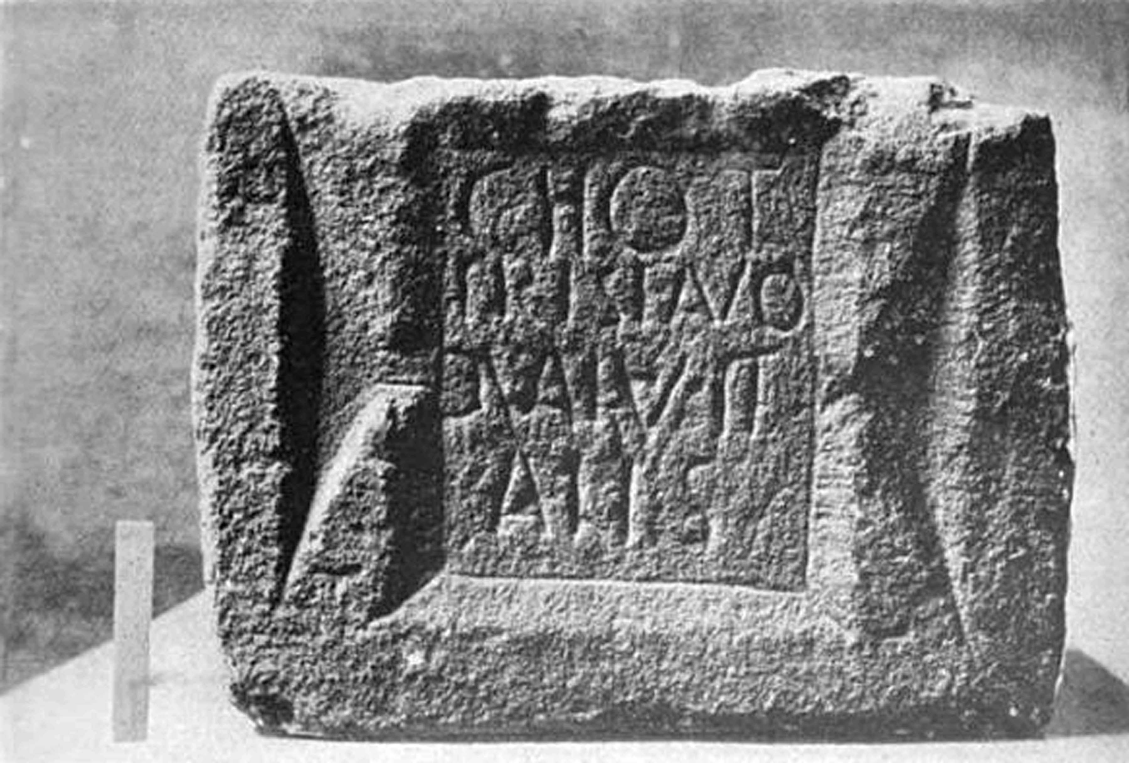 Inscription stone found at Melandra Castle, a Roman fort in Derbyshire, England. From page 123 of the source: The inscription reads "CHO. T. FRISIAVO C. VAL VITALIS", which may be expanded to become "Cohortis Primae Frisauonum Centurio Valerius Vitalis", which may be translated as "Velerius Vitalis, Centurion of the First Cohort of the Frisiavones".